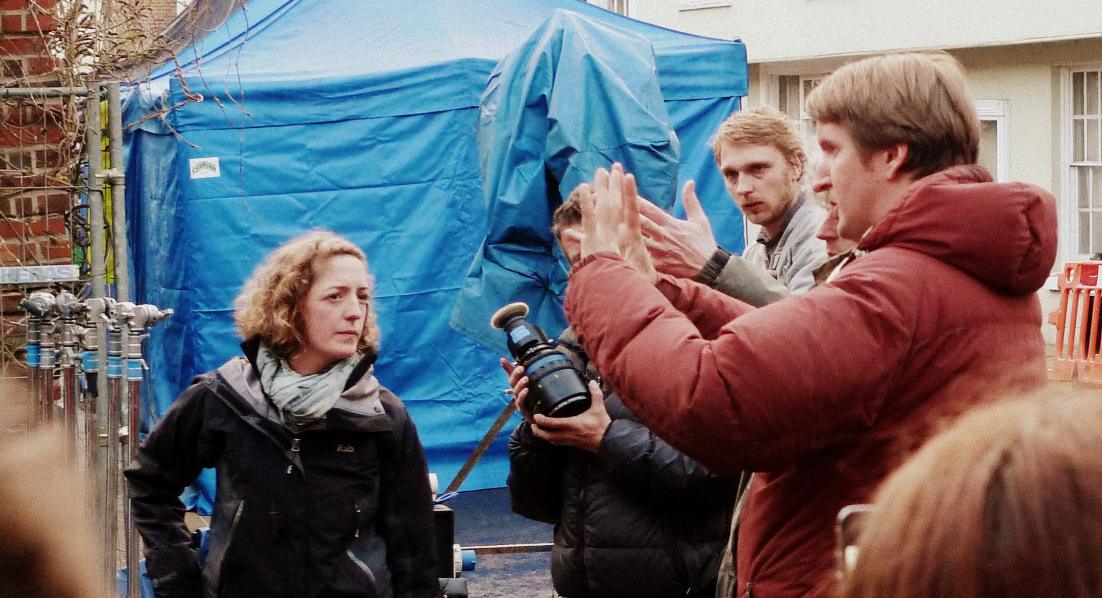 Tom Hooper on the set of Les Miserables in Winchester, sorting out a shot for his second unit